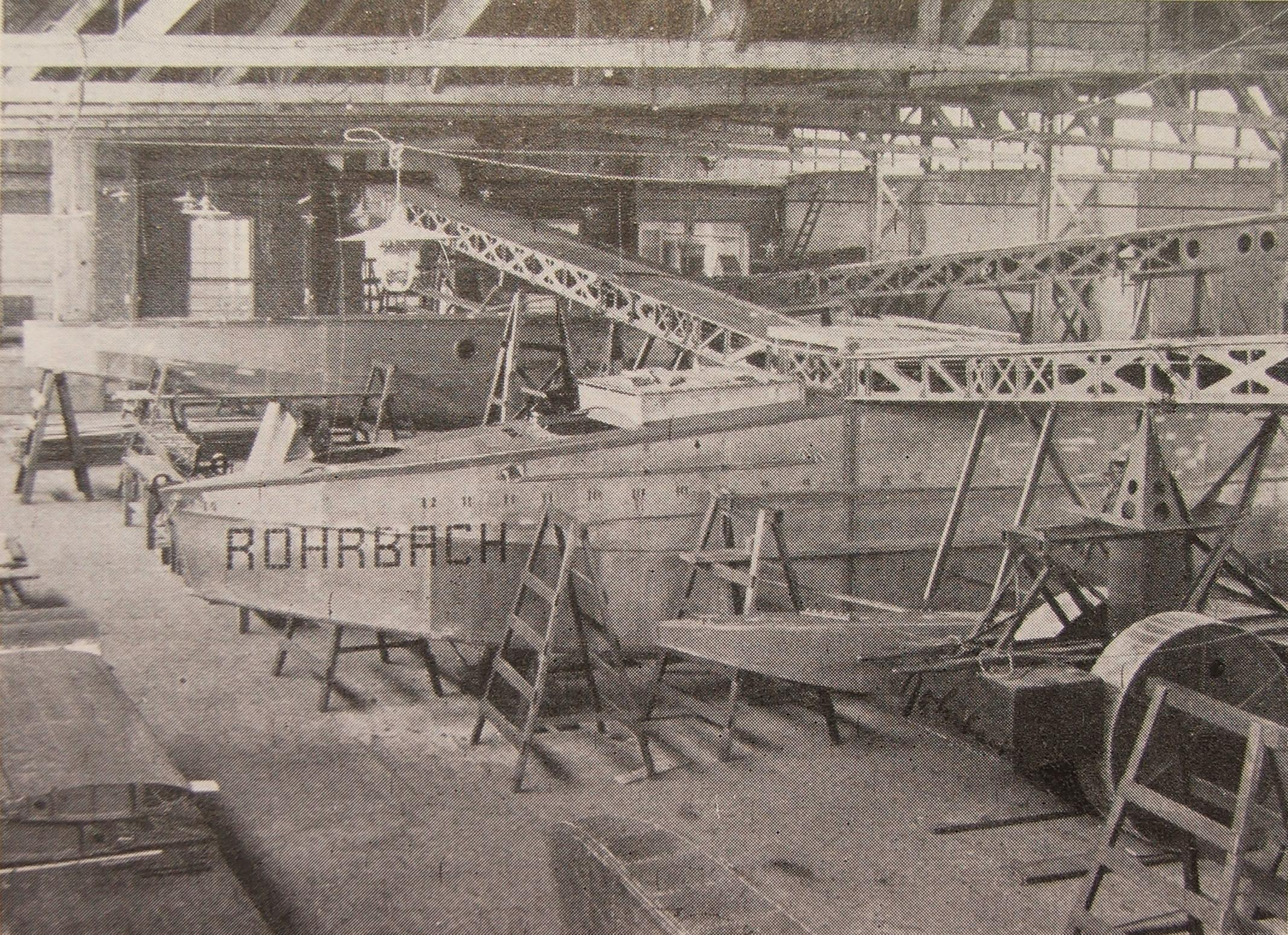 Assembly Rohrbach Rodra